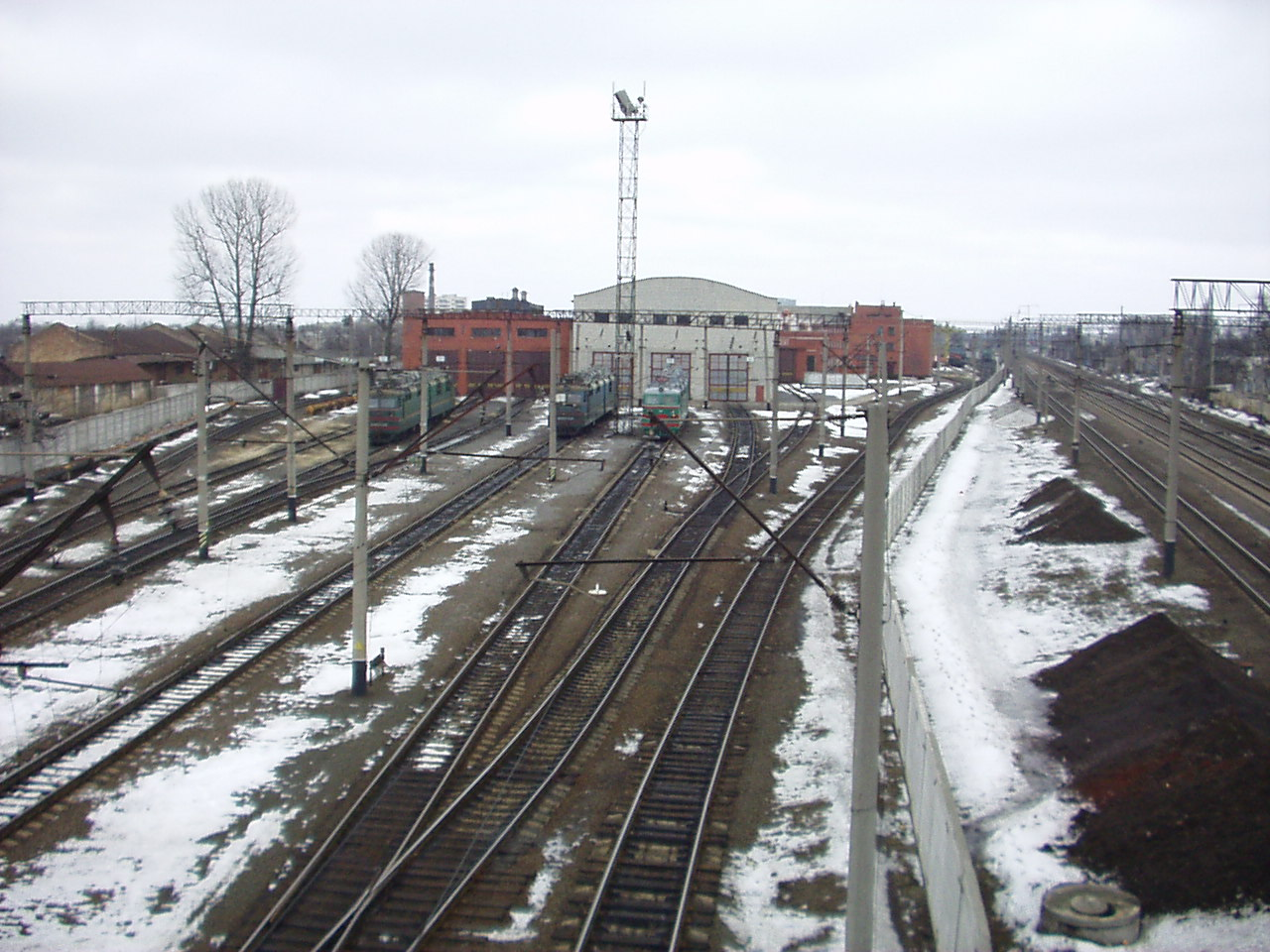 Podilsk locomotive depot